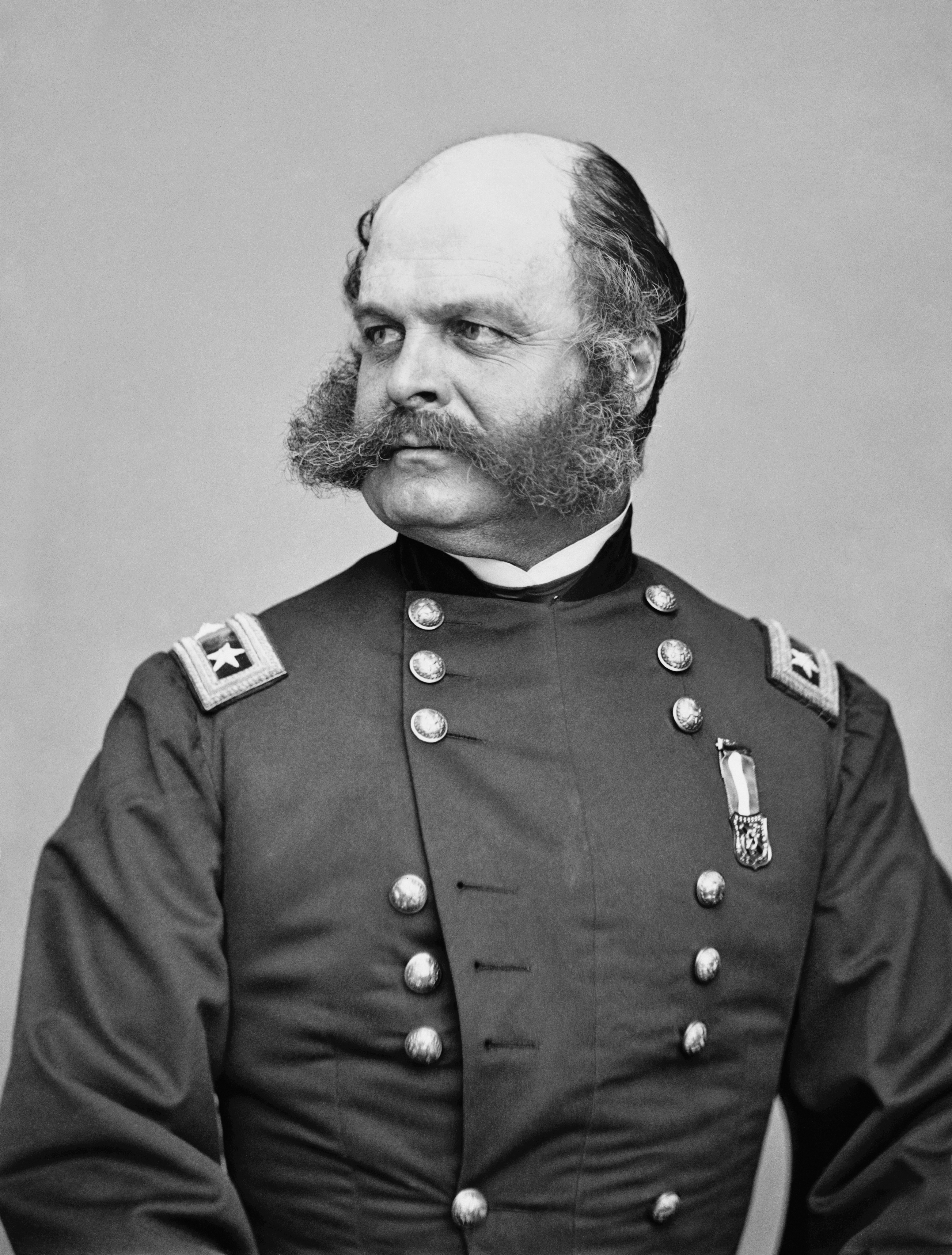 "Portrait of Maj. Gen. Ambrose E. Burnside, officer of the Federal Army". Negative: glass, wet collodion.